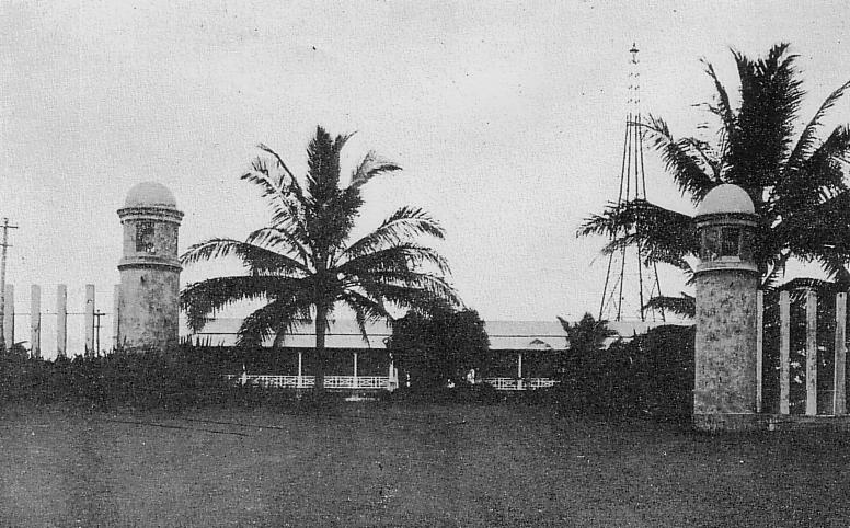 Nan'yo-cho(Administrative Headquarters of the South Pacific Mandate) High Court